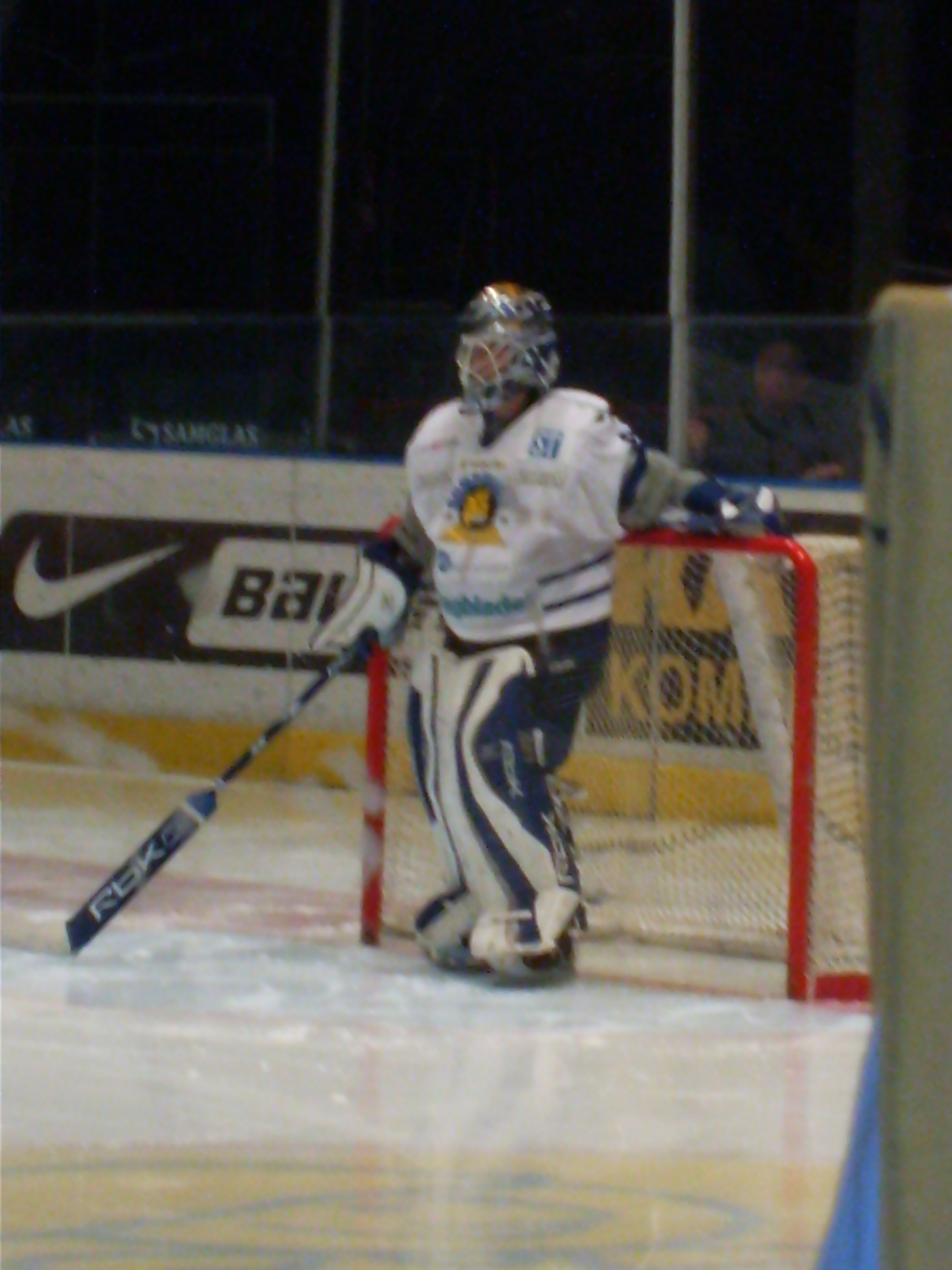 Joakim Lundström, goaltender of IF Sundsvall Hockey.